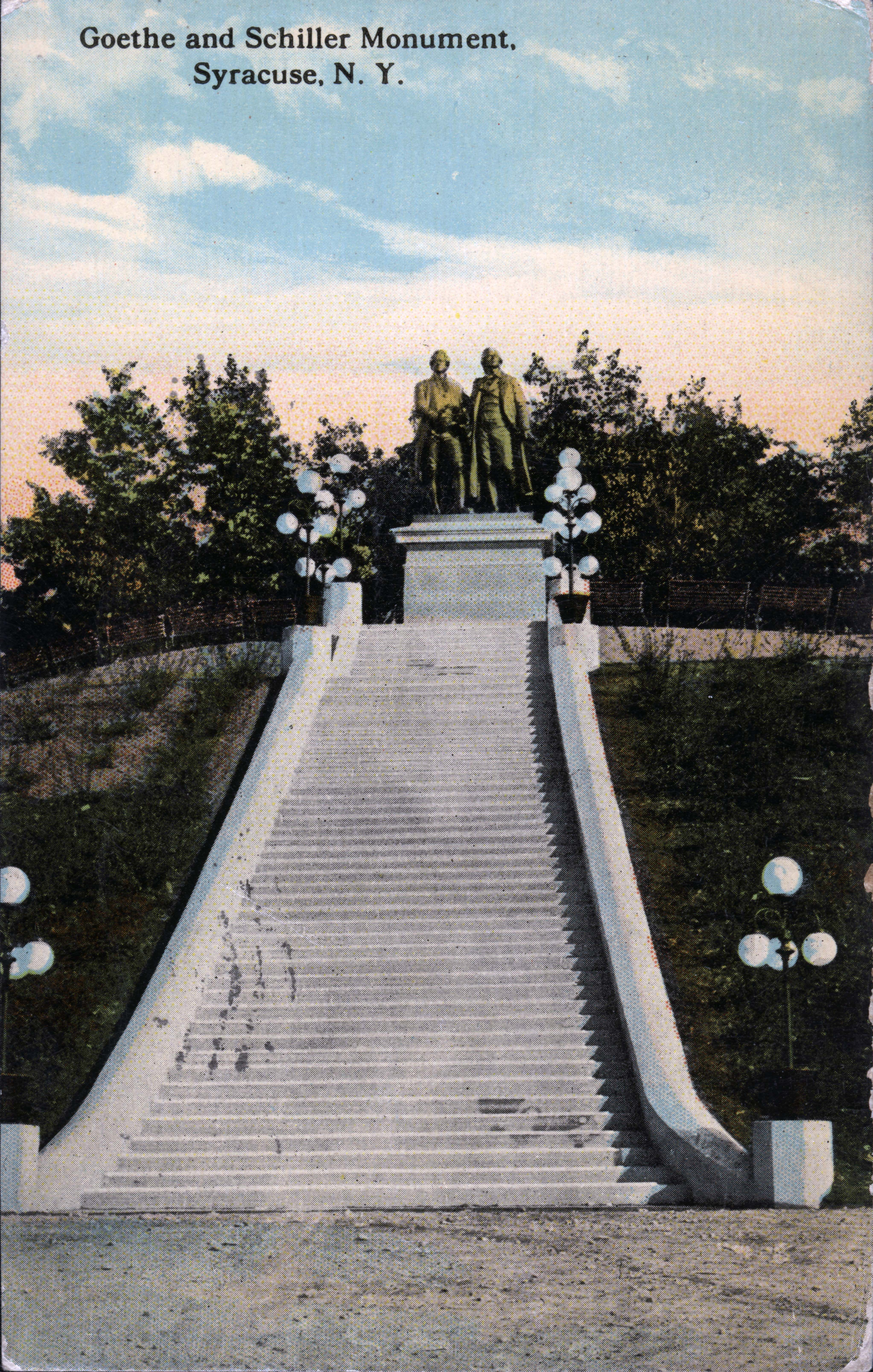 Postcard showing the Goethe-Schiller Monument in Syracuse, New York. On reverse side:postmarked June 9, 1913. Printed markings on reverse include "Published by Wm. Jubb, Syracuse, N. Y. Made in U. S. A." and R-26206.